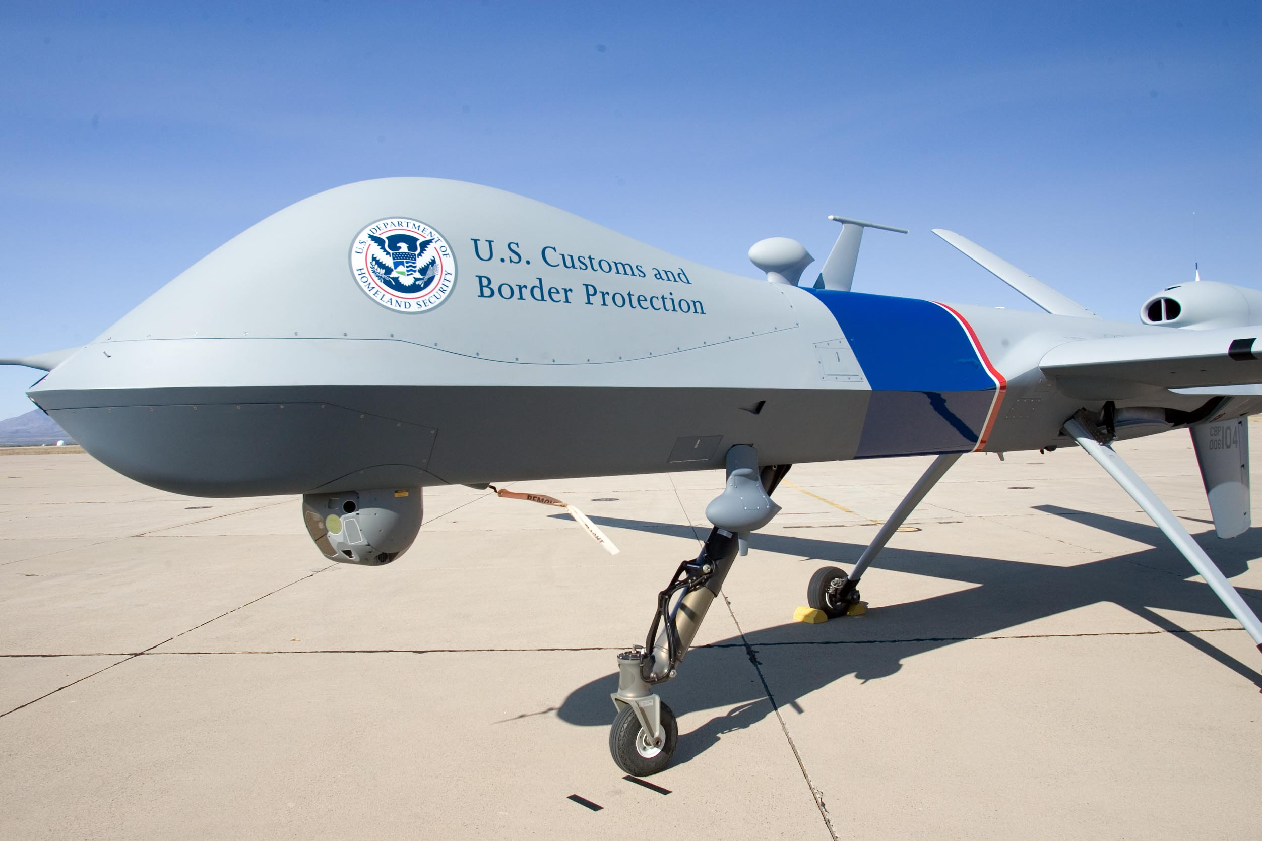 U.S. Customs and Border Protection (CBP) Unmanned aerial vehicle of the CBP Air and Marine Unmanned Aircraft System. (Predator unarmed)